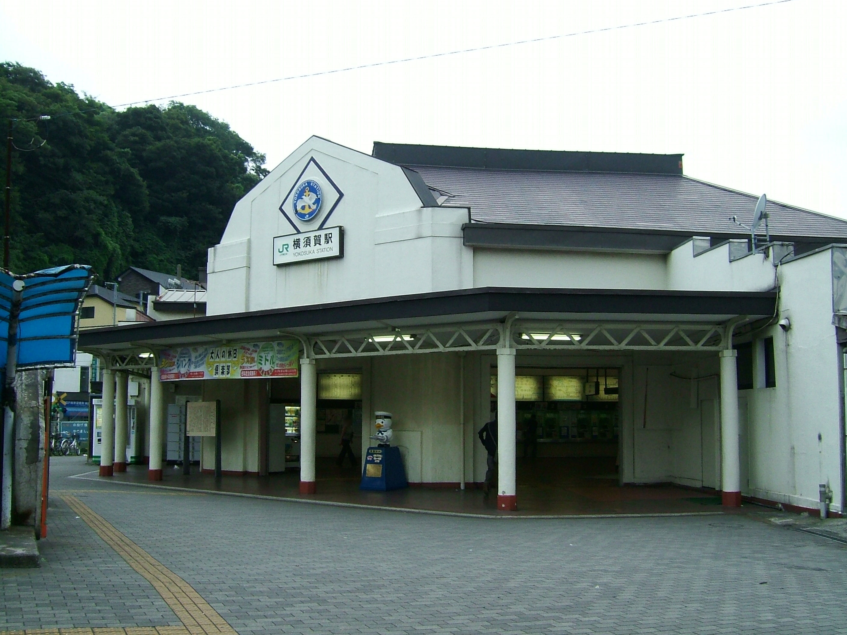 Yokosuka Station building (East Japan Railway Yokosuka Line)